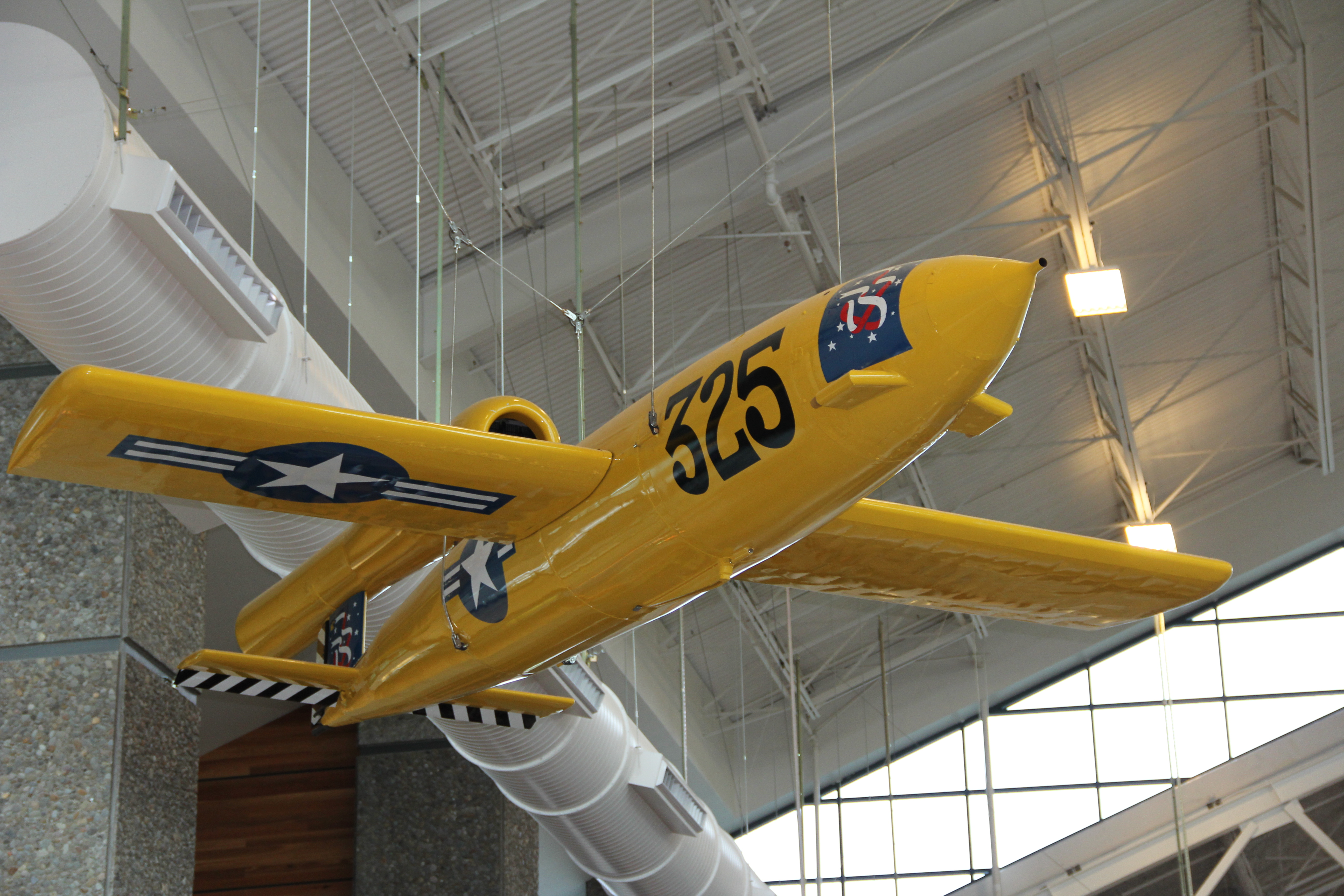 U.S. JB-2 "Loon" Missile (copy of the German V-1)